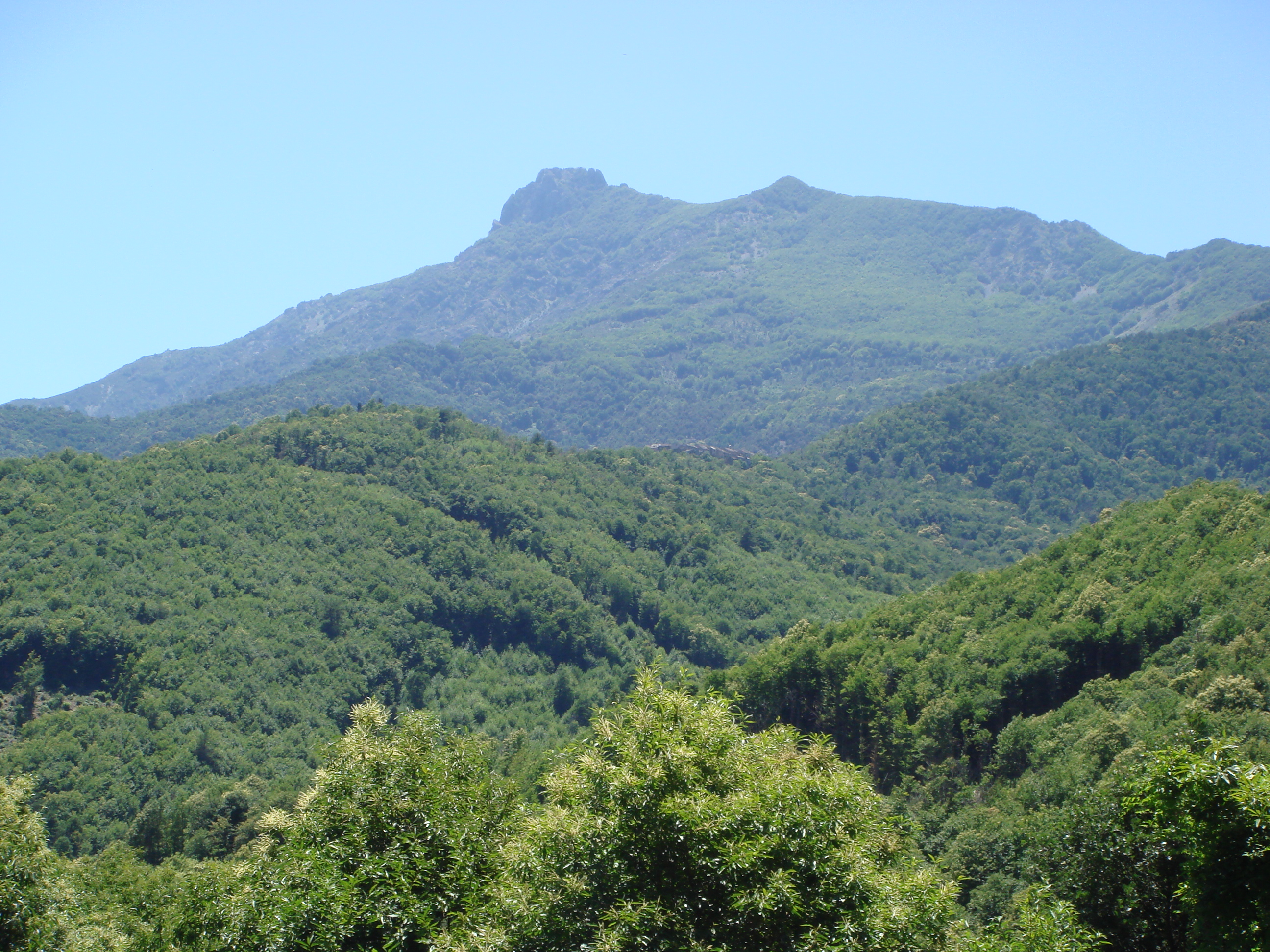 Landscape of Castagniccia in Corsica.